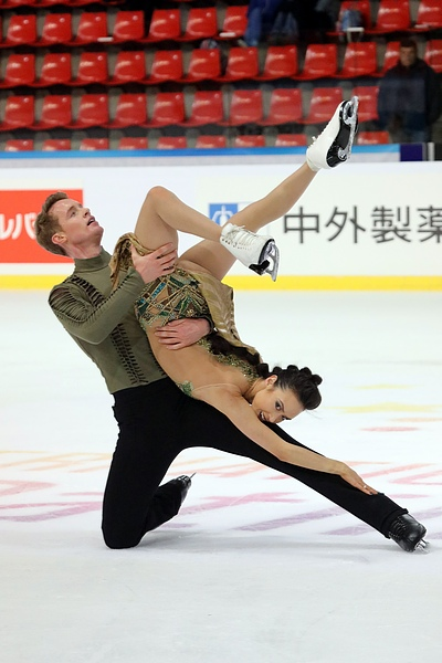 Madison Chock and Evan Bates - 2019 Internationaux de France